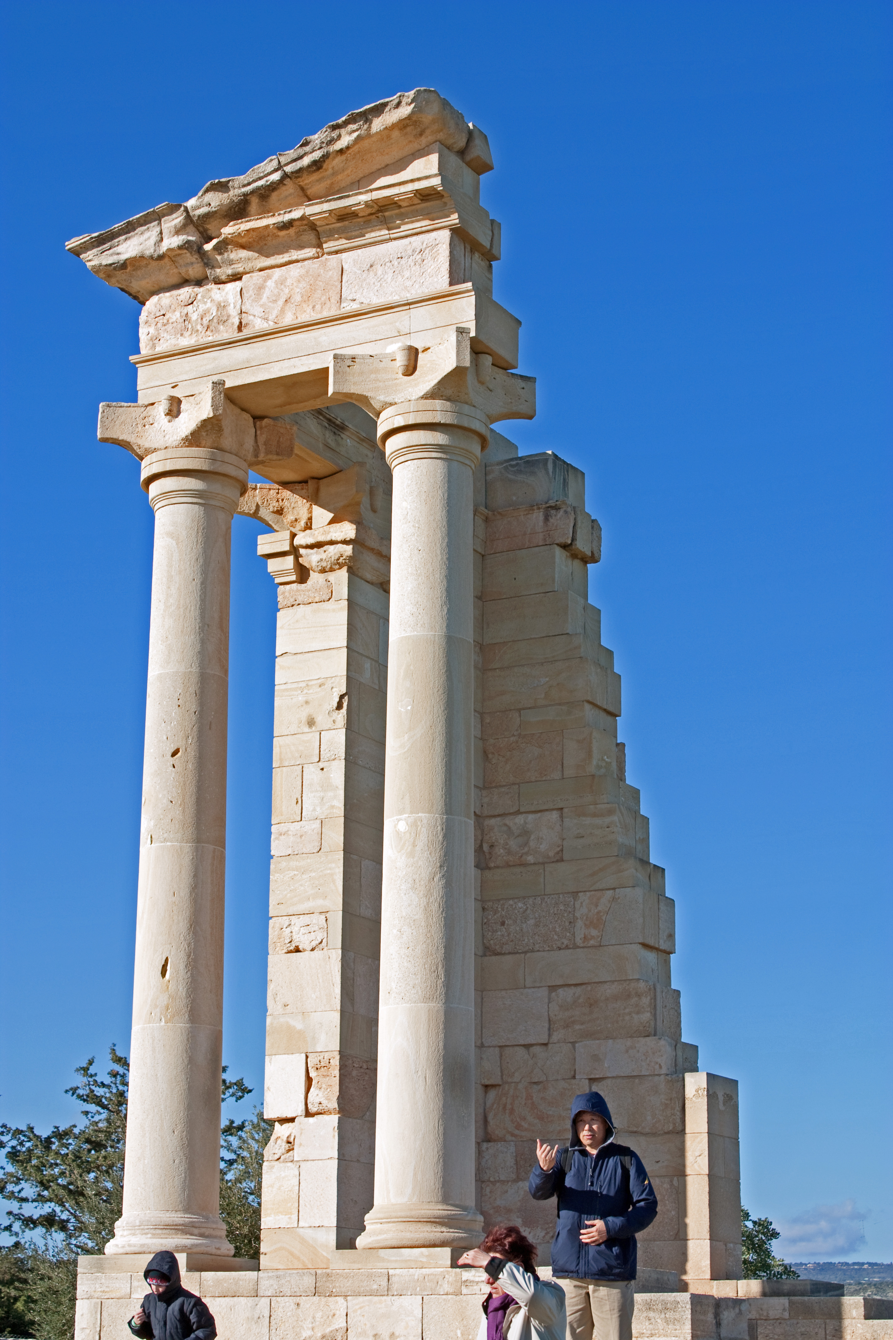 Temple at the Sanctuary of Apollo Hylates in Kourion, Cyprus.